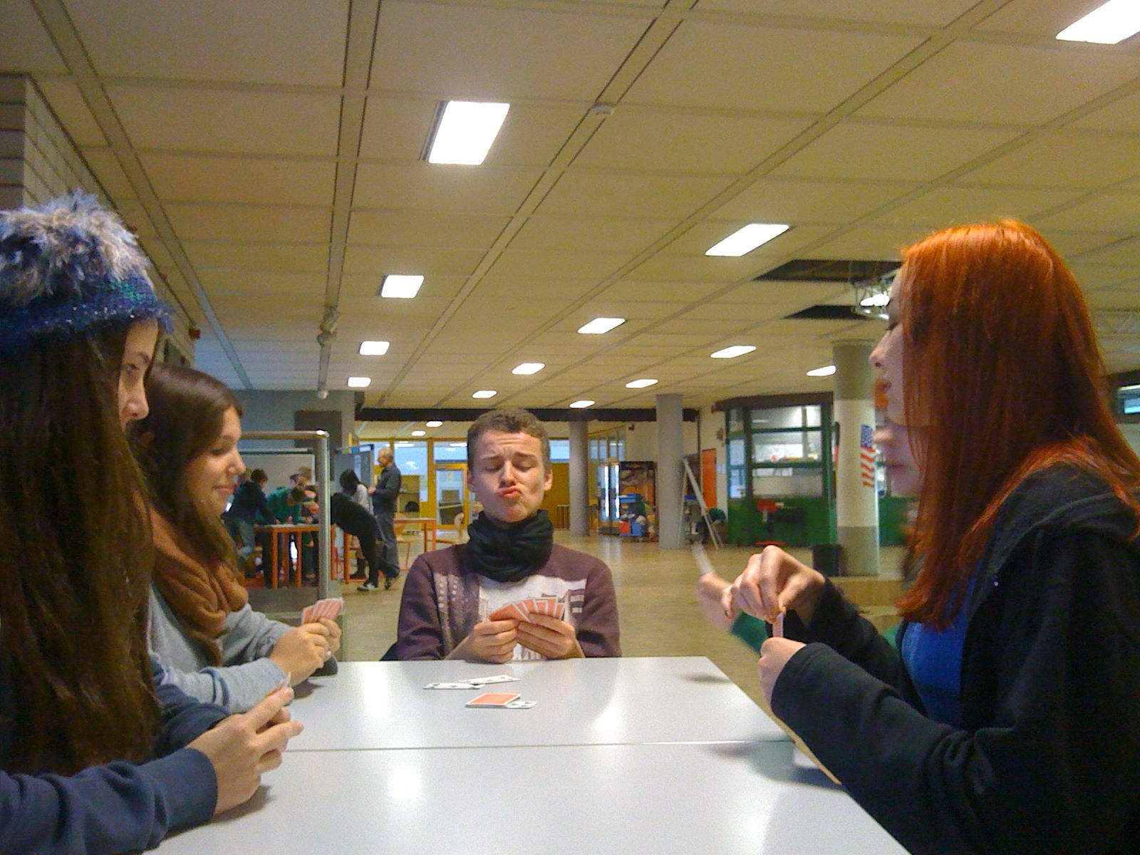 five persons playing Durak